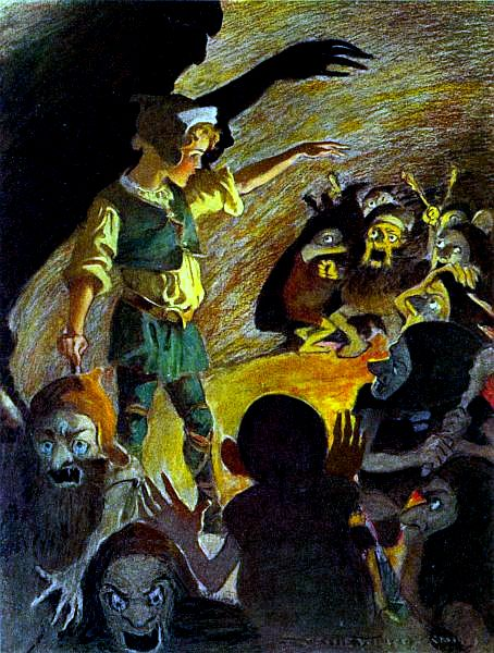 The Princess and the Goblin by George MacDonald, illustrated by Jessie Willcox Smith, 1920